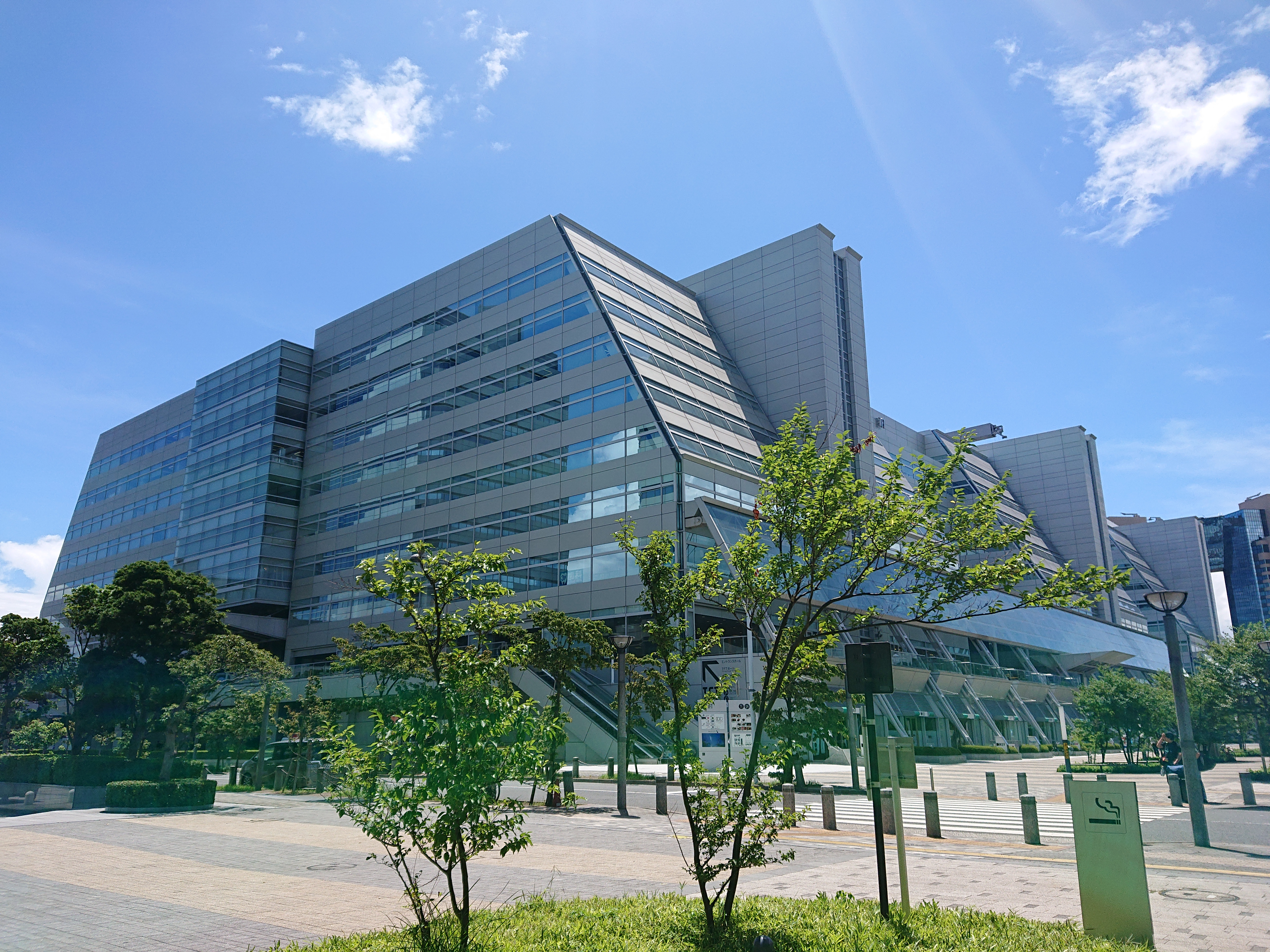 Tokyo Fashion Town Building (東京ファッションタウンビル), located at Ariake, Koto, Tokyo, Japan